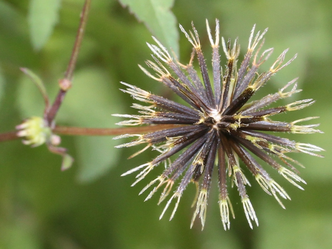 Achene of Bidens pilosa var. pilosa, in Japan.